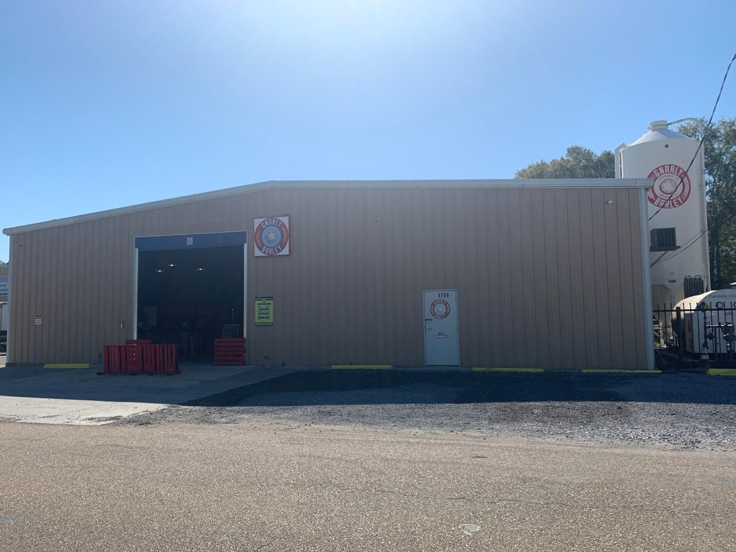 Category:Gnarly Barley Brewing Company